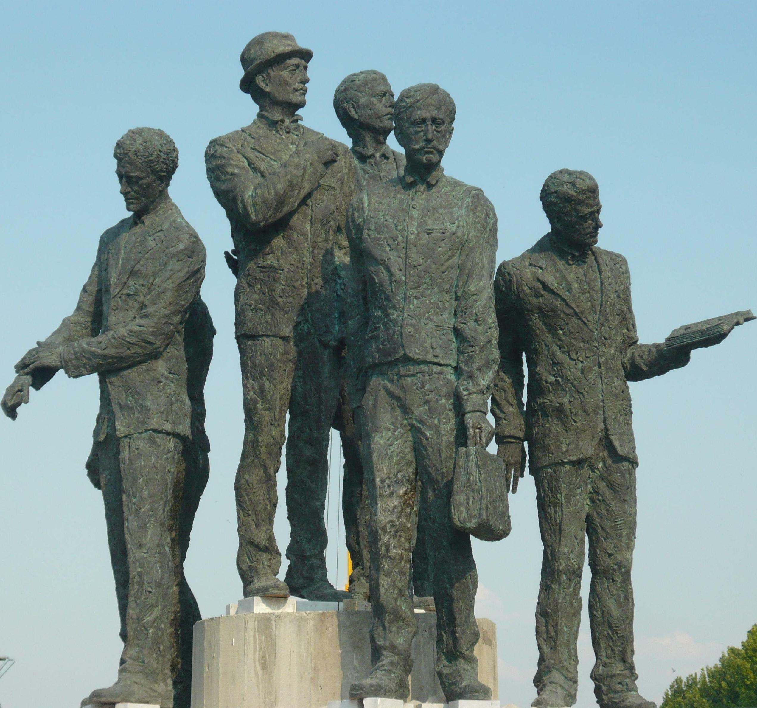 Monument of the 'Gemidzii', important Macedonian historical figures, in Skopje